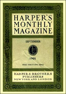 Cover of "Harper's magazine", 1905.